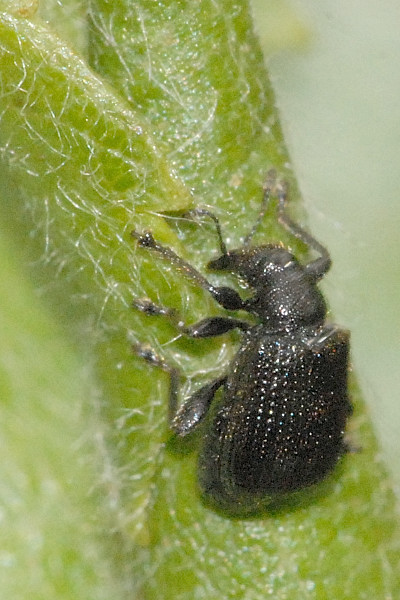 Deporaus betulae from Commanster, Belgian High Ardennes .